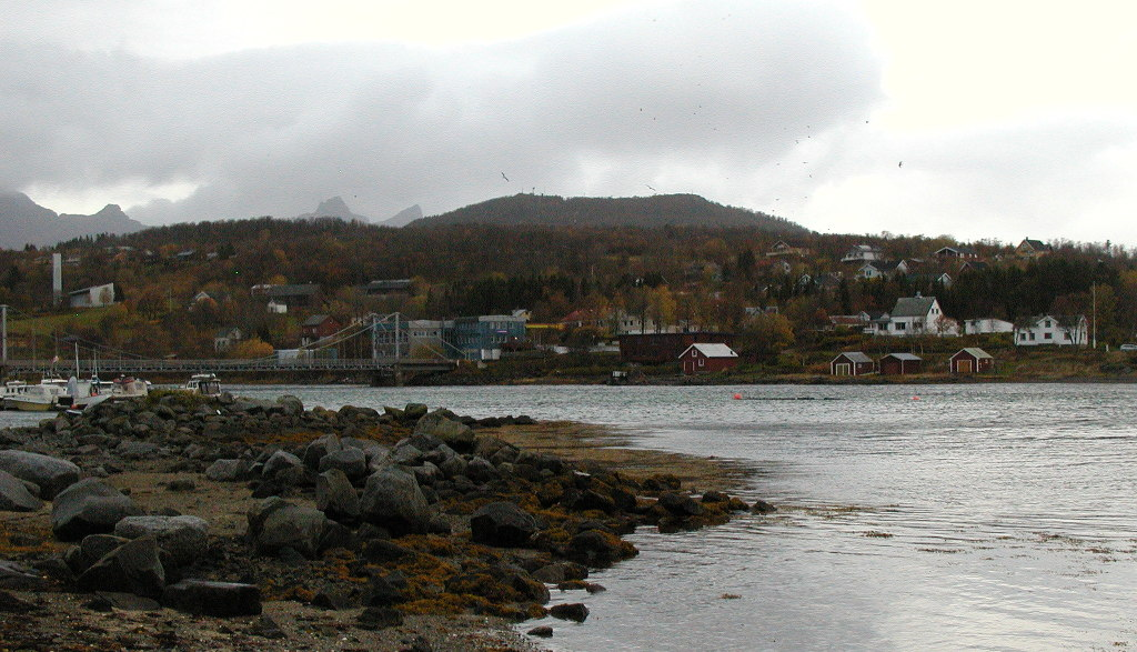 The village Presteid in Hamarøy municipality, Norway. October 2008.